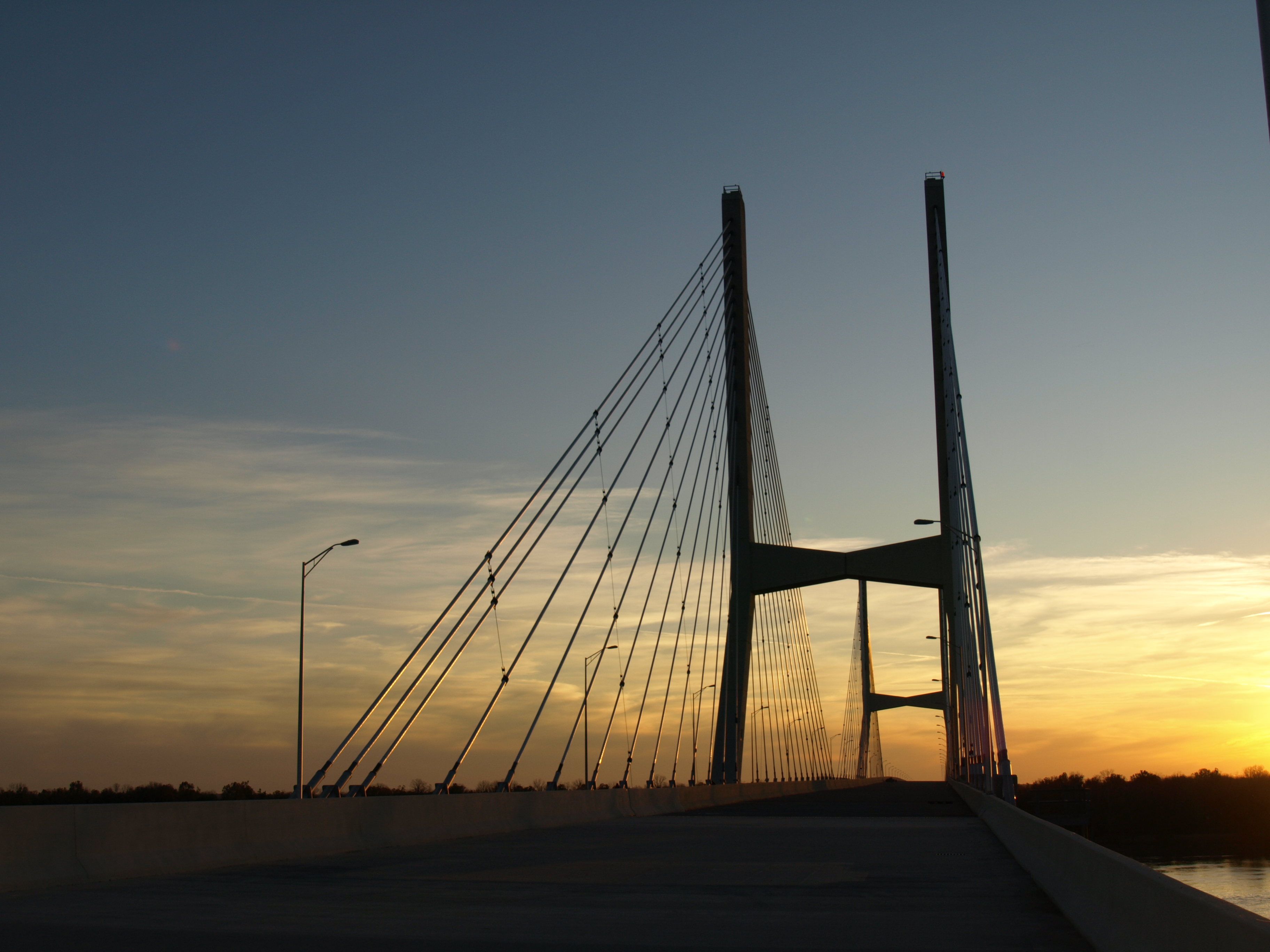 The Greenville Bridge is a cable-stayed bridge crossing the Mississippi River, that carries US 82 and US 278, between Lake Village, Arkansas and Greenville, Mississippi Original description:On the new 1,378 foot span cable stayed bridge at Greenville, Mississippi. Taken with Olympus E-410 dslr.